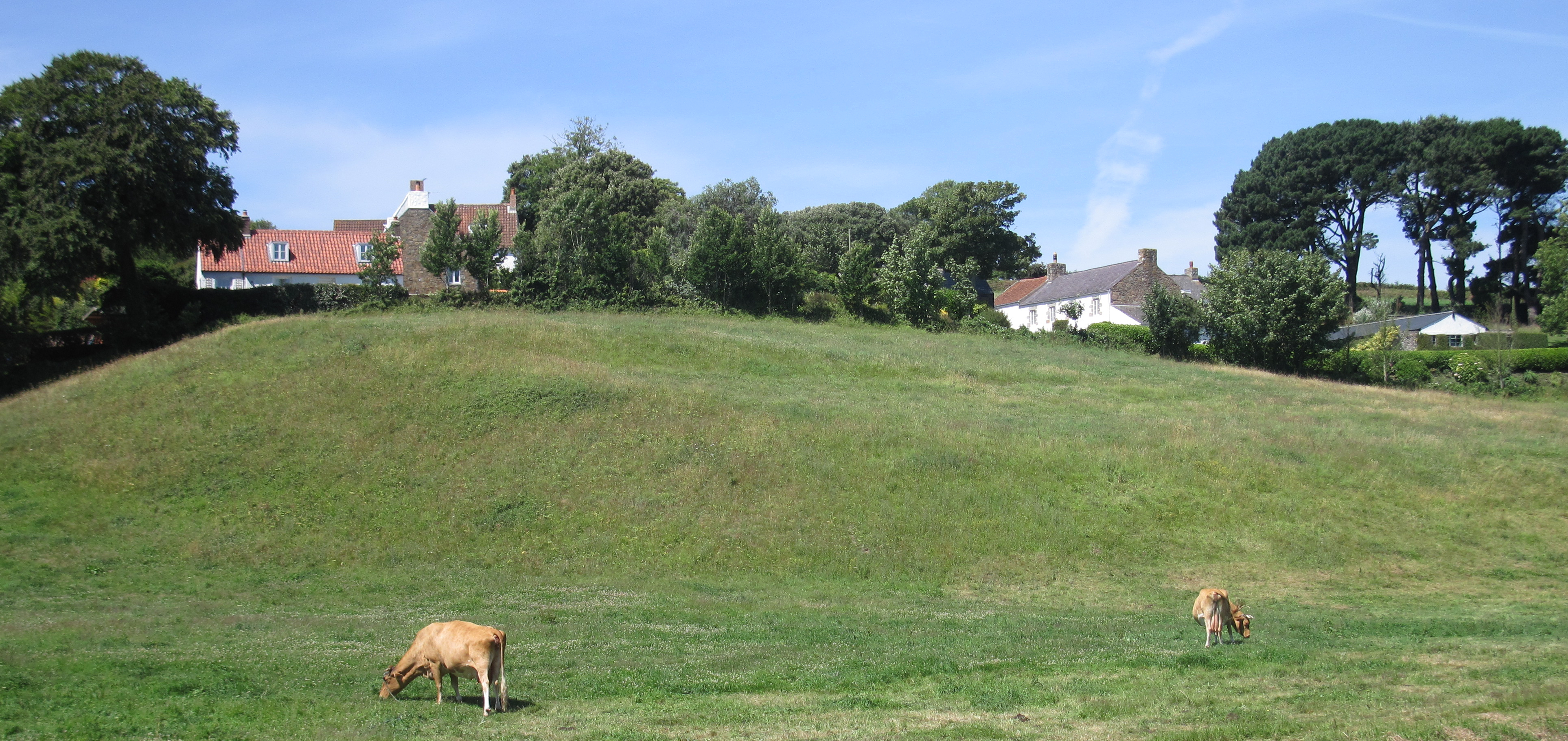 Guernsey, July 2011